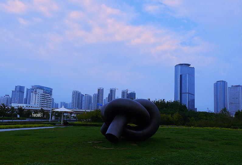 Zhengzhou East New District